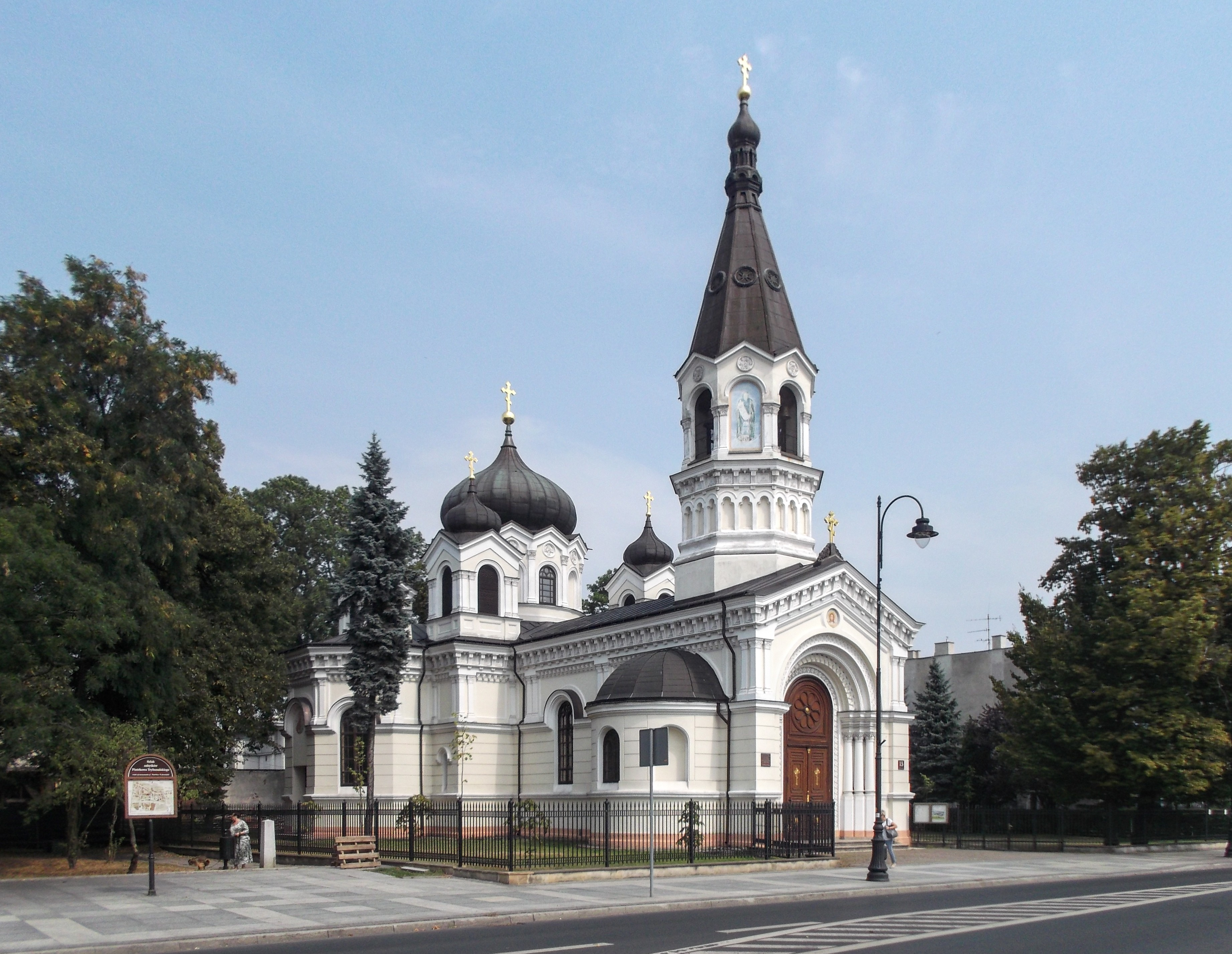 Orthodox church in Piotrków Trybunalski in Poland.